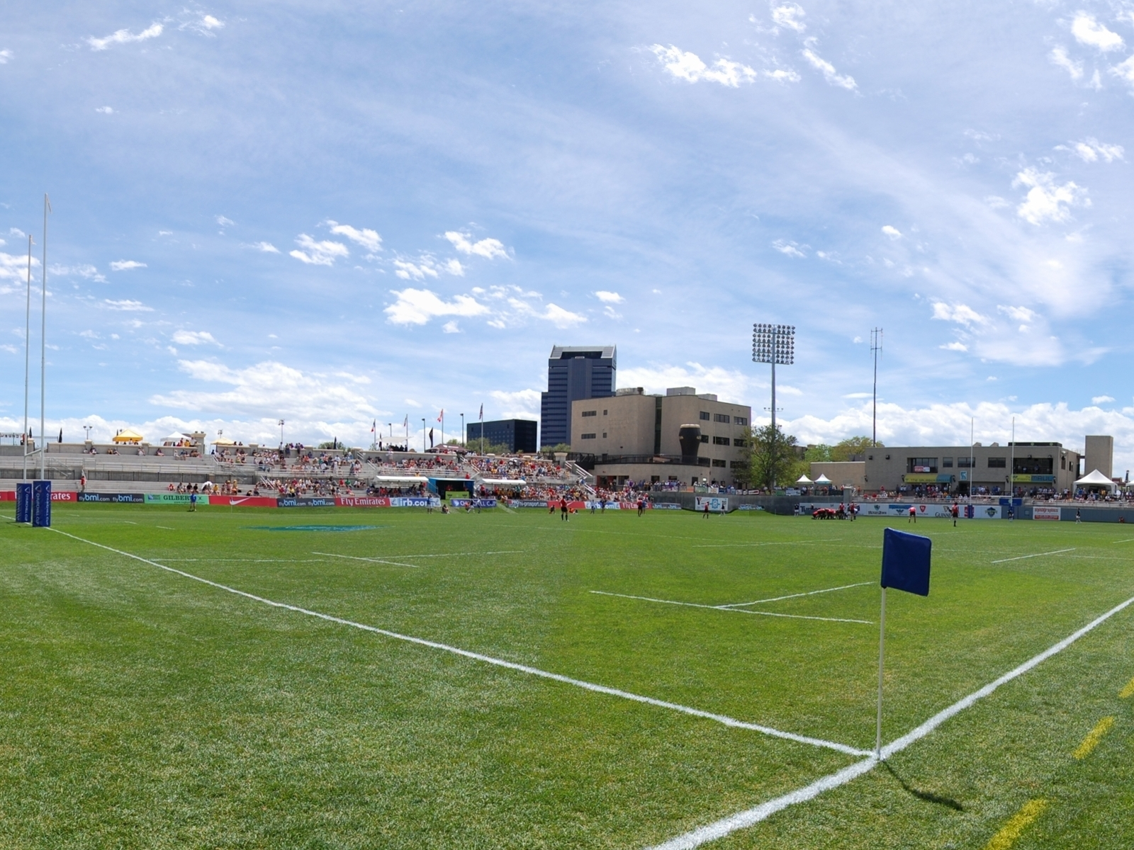 A view from the north-east corner of the rugby field Infinity Park